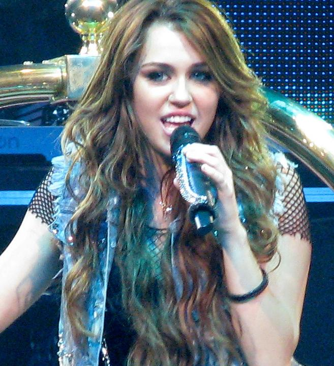 Pop singer Miley Cyrus faces forward while singing into a microphone, with hair long wavy hair covering her blouse and most of her jean jacket.